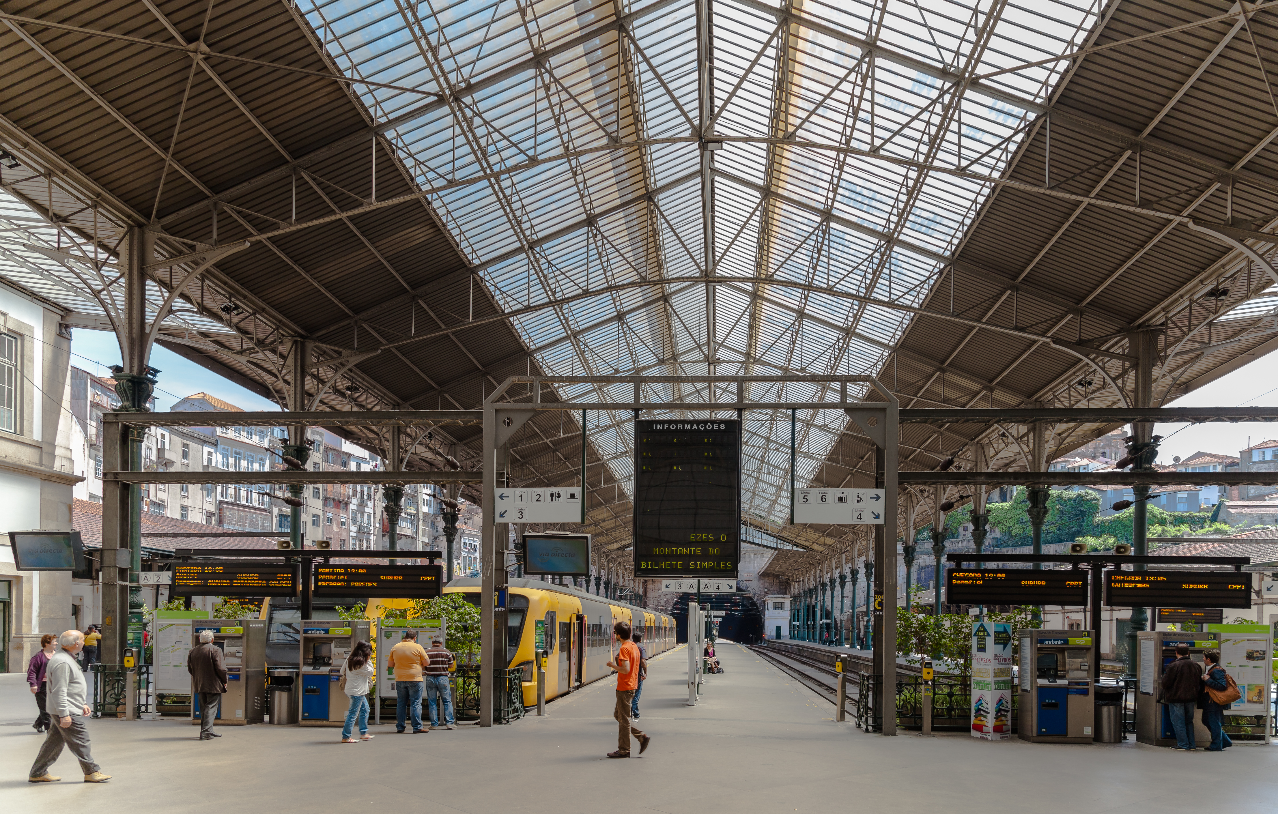 São Bento train station, Porto, Portugal